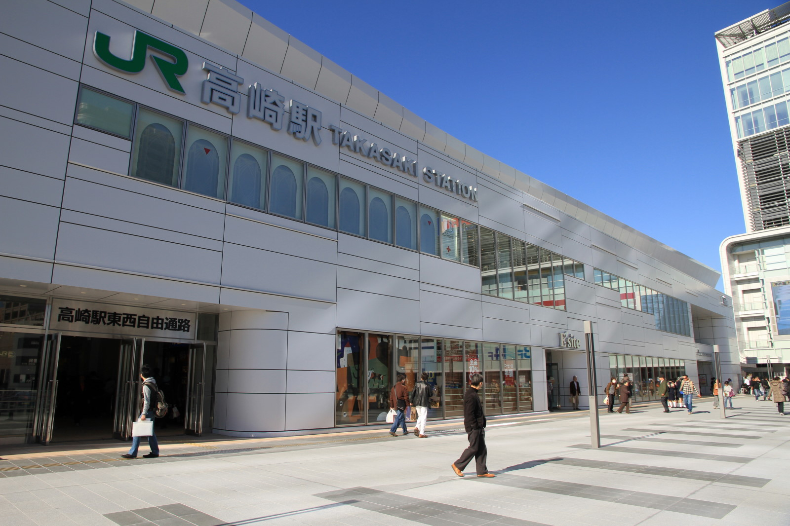 Takasaki Station east ("E'site") entrance